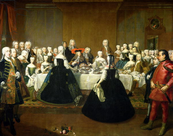 Wedding breakfast of Maria Theresa of Austria and Francis of Lorraine (A Banquet at the Court of the German Emperor Charles VI)